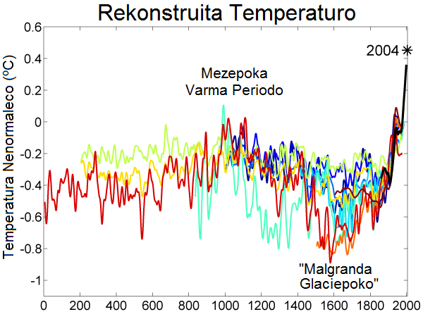 This image is a comparison of 11 different published reconstructions of changes during the last 2000 years. The single annual value for 2004 is also shown for comparison.